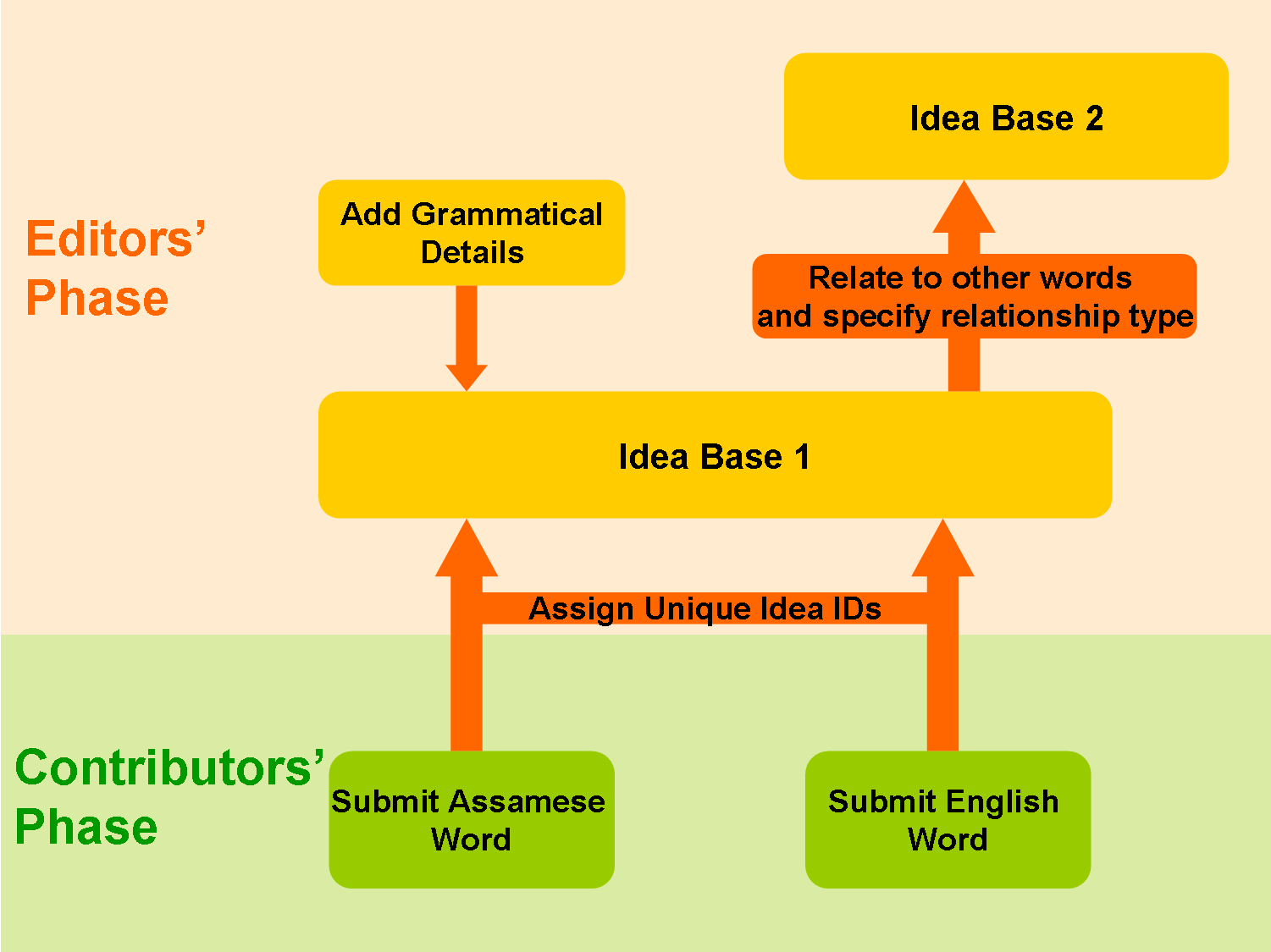 author: priyankoo source: from (I am also an administrator)